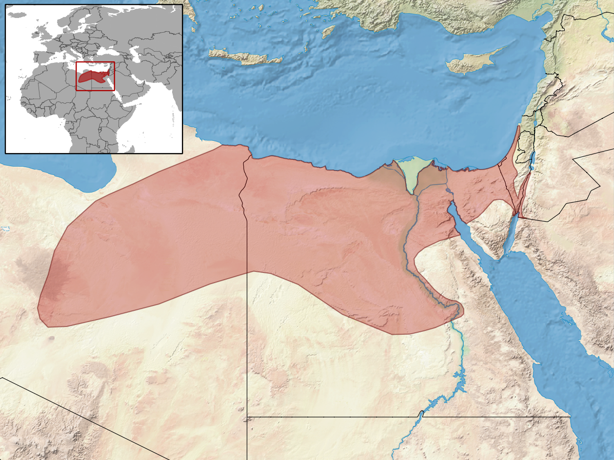 geographic distribution of Chalcides sepsoides